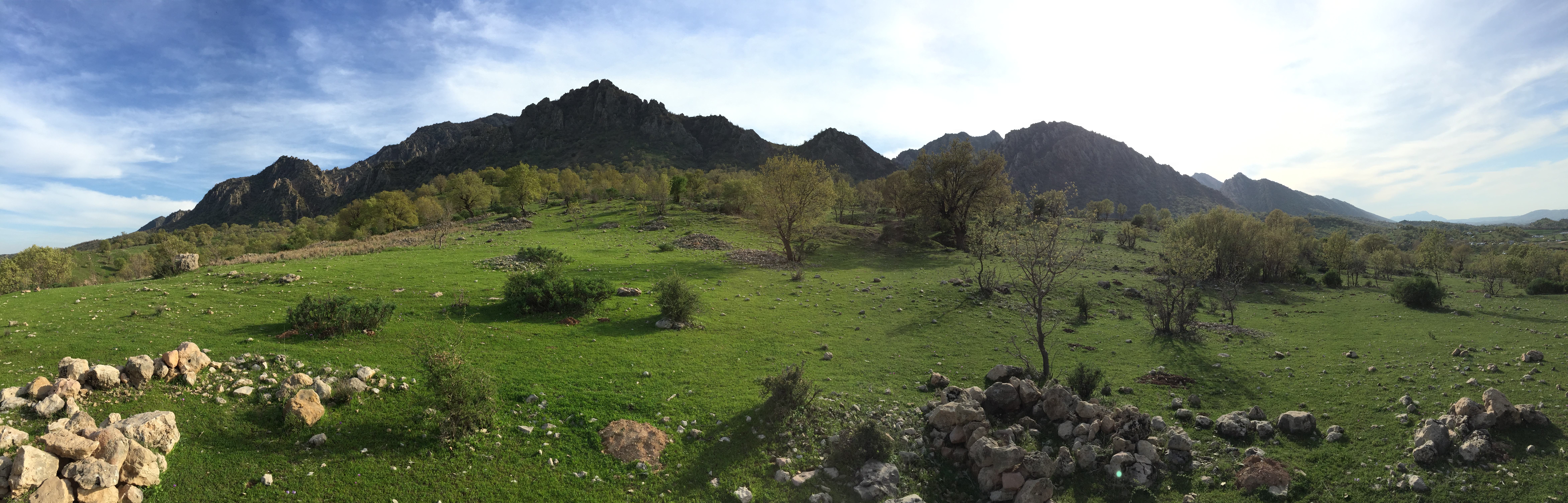 Nature in Zaxo, Kurdistan.